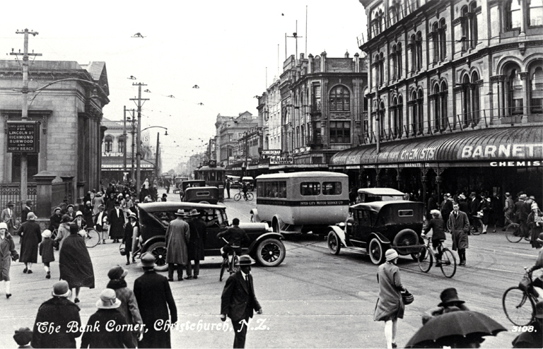 Cars, bicycles and a bus create a busy scene at the Bank corner, Christchurch. Barnett & Co. Chemists on the right, and the Bank of NZ building on the left in Cathedral Square, looking south.